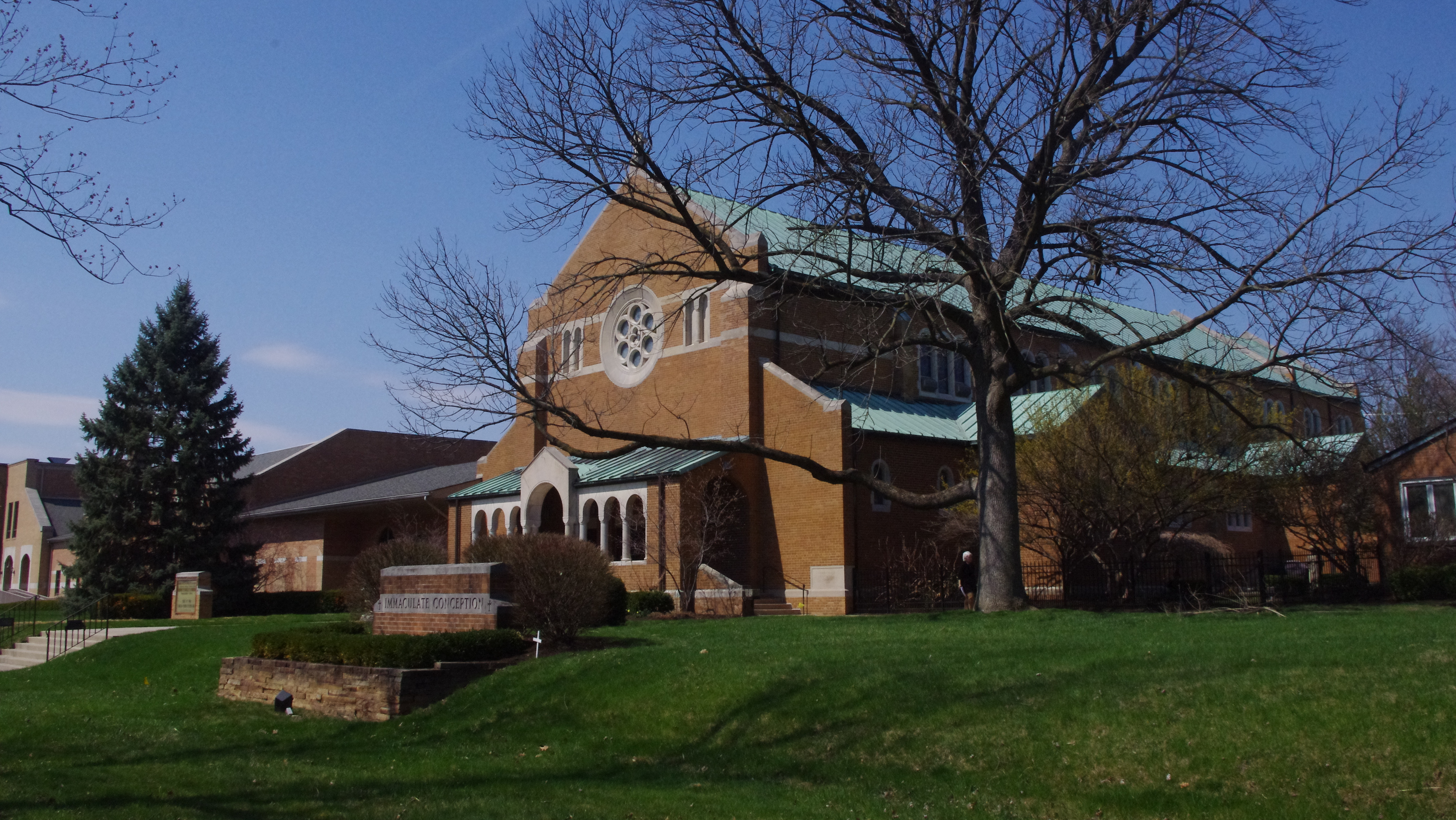 Immaculate Conception Church (Columbus, Ohio) - exterior